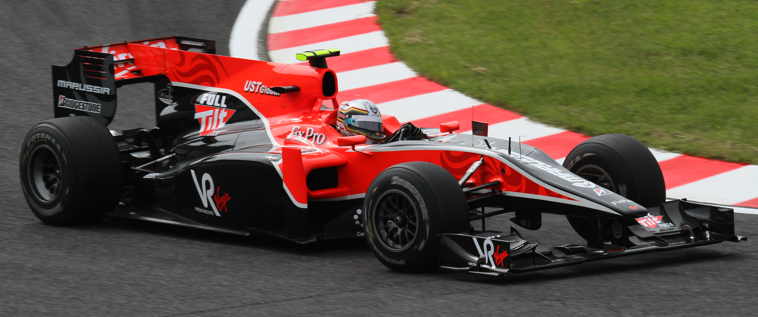 Formula One 2010 Rd.16 Japanese GP: Jérôme d'Ambrosio (Virgin) during Friday 1st Free Practice session as team's test driver.